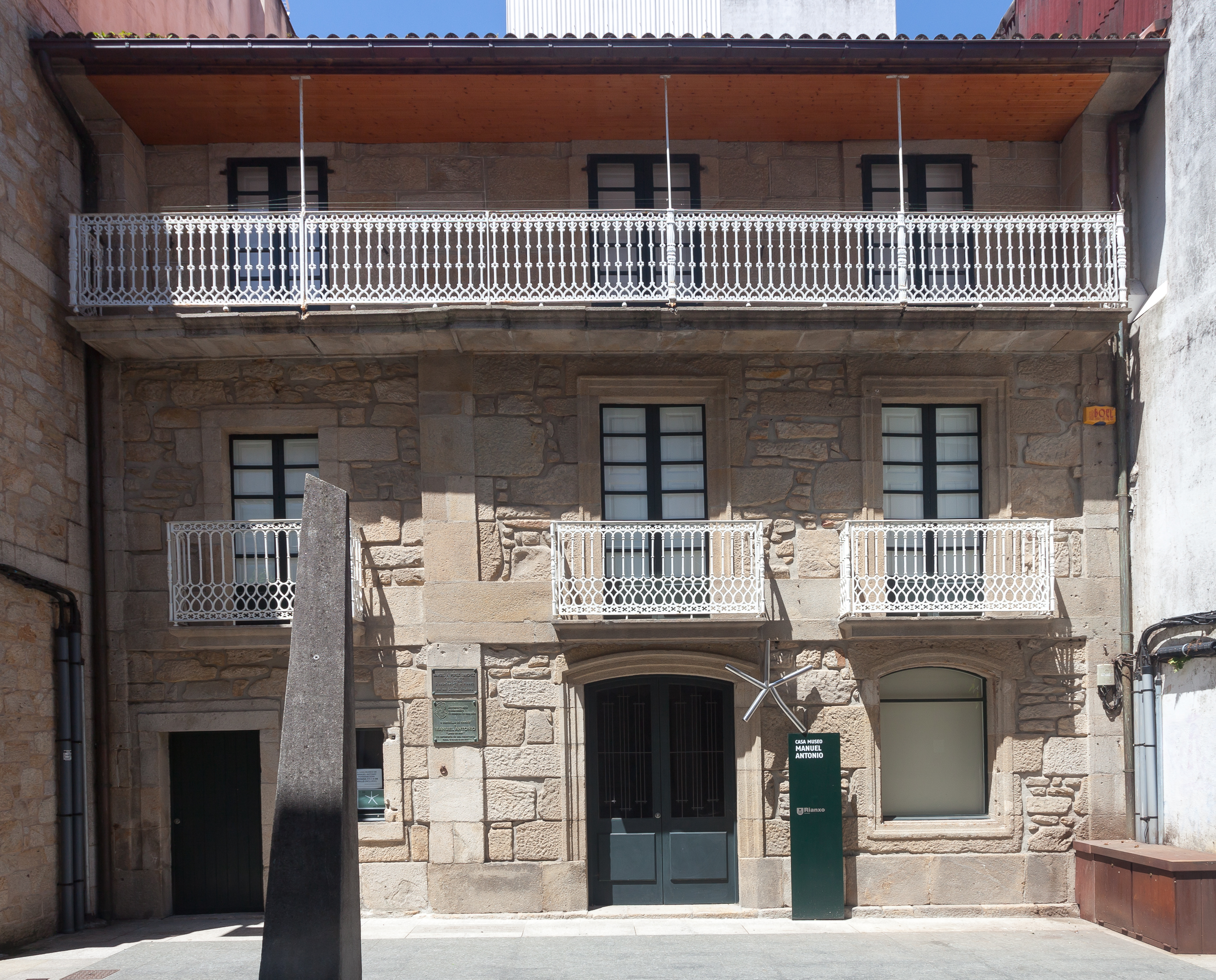 House museum of Manuel Antonio. Rianxo. Galicia (Spain).